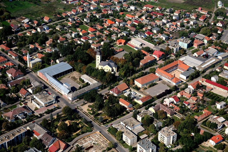 The view of the center of Hajdúdorog, Hungary. If you follow the main road (Nánási street) from the left of the picture to the bottom, you first will find the smaller Reformed Church of the town. The buildings close to that with a tin roof belong to the primary school of the Saint Basil Educational Center which is run by the Hungarian Greek Catholic Church. If you move to the right from the school you'll find the largest church of the town, the Greek Catholic Cathedral. On the opposite side of the road there're the buildings of the stately run Ferenc Móra Primary and Art School. To the right of the cathedral and opposite to the Ferenc Móra school there's the building of the Town Hall.